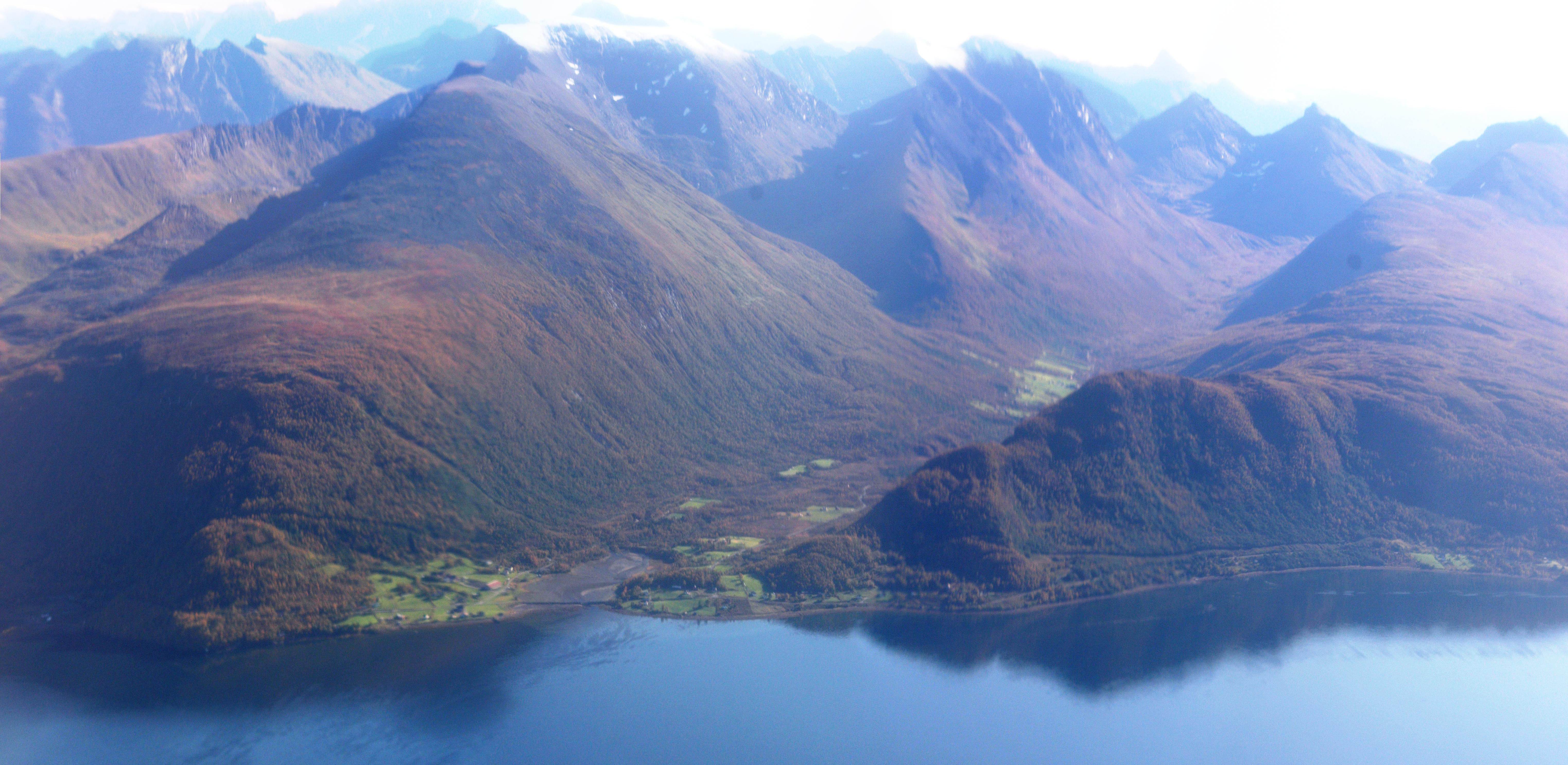 Balsfjord, south of Tromsø, Troms county, Norway. Seen from the west towards east.